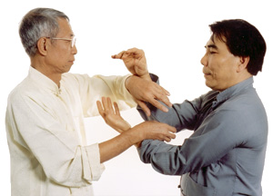 (archive copy)